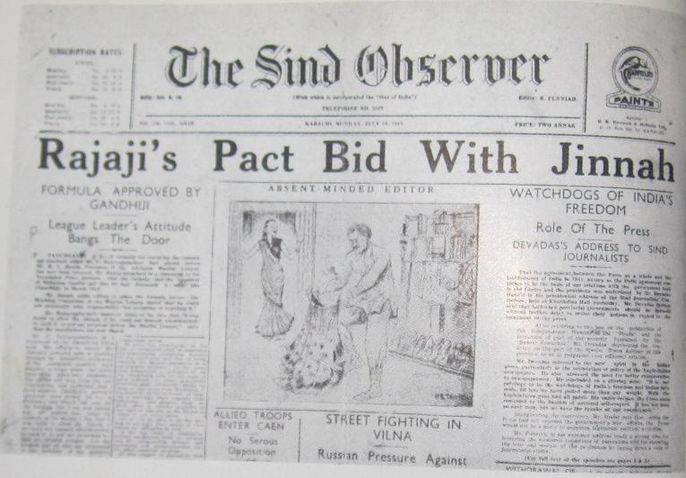 Front page of The Sindh Observer. The headline is about the CR Formula, devised by Chakravarthi Rajagopalachari for partitioning British India into India and Pakistan